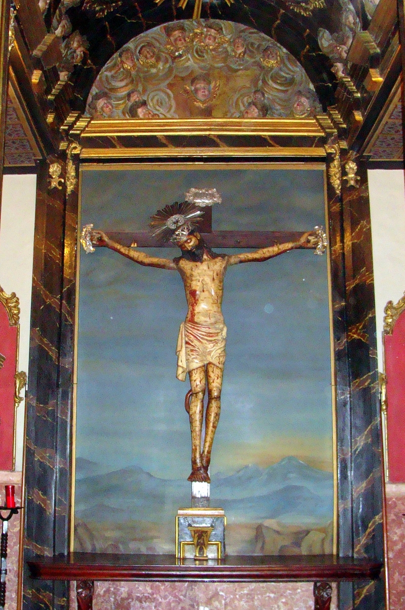 Church of Our Lady of the Angels in Pollença